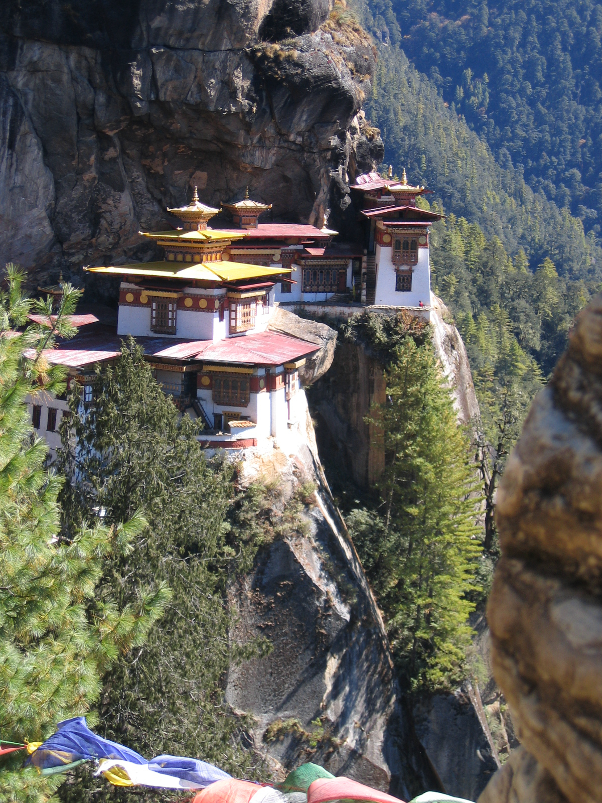 Taktshang, one of the most famous monasteries in Bhutan